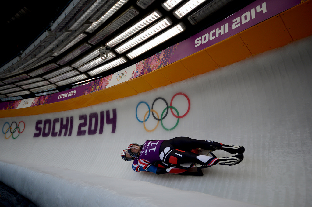 U.S. Army World Class Athlete Program Soldiers Sgt. Matt Mortensen (top) and Sgt. Preston Griffall (bottom) are clocked at 80 miles per hour on a run of 51.660 seconds during Olympic luge doubles training Feb. 10 at Sanki Sliding Centre in Krasnaya Polyana, Russia. (U.S. Army photo by Tim Hipps)